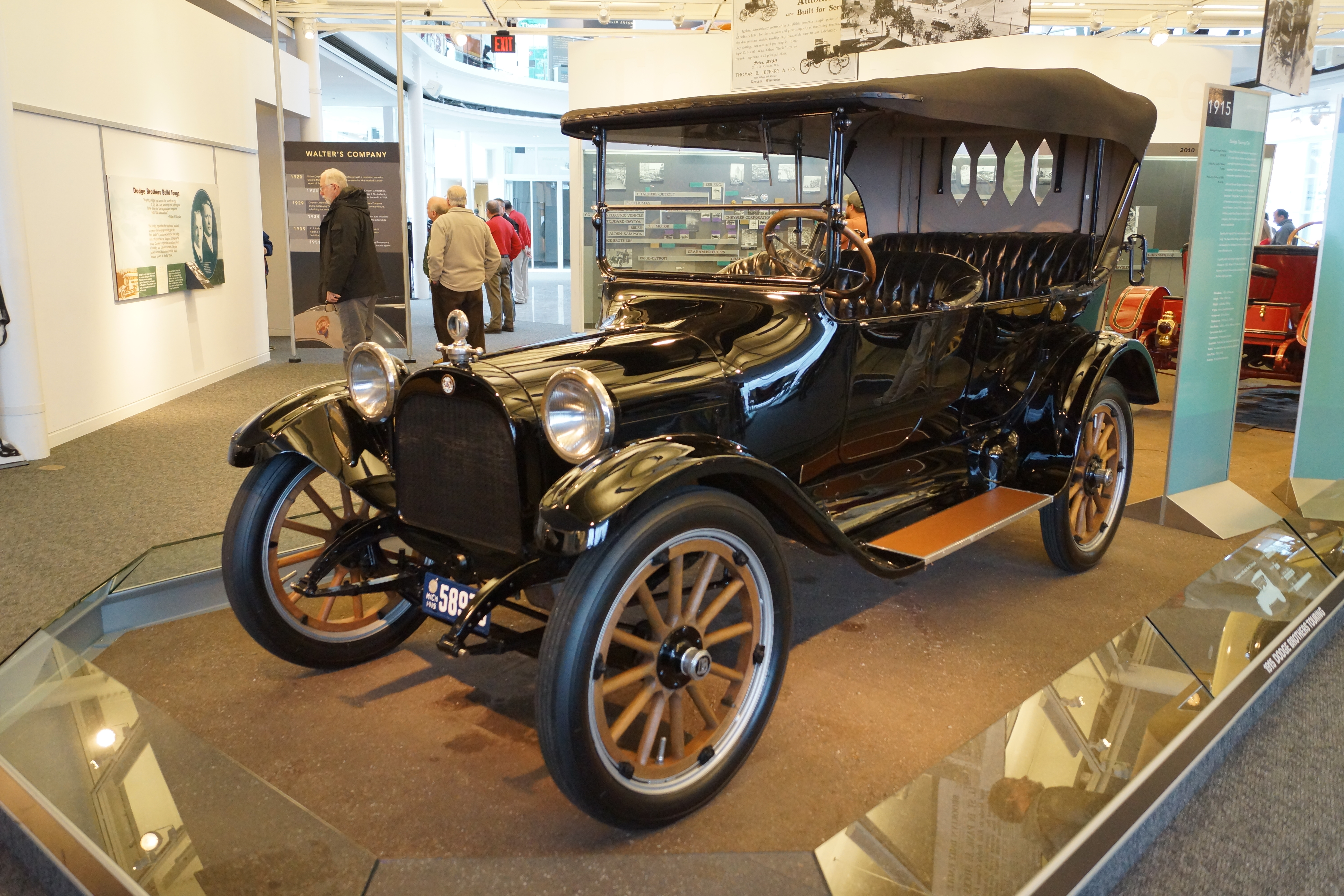 Click here for more car pictures at my Flickr site. Or here for my Car Crazy Tumblr site. Back on November 4th, Hemming's Blog posted an article about the closing of the Walter P. Chrysler Museum . I had missed a couple other opportunities with the WPC Club and others to get into the museum, after it had closed to the public. I did not want to regret missing this last chance to see all of the vehicles before being spread out to other facilities. I trekked from Western Minnesota to Eastern Michigan during Winter Storm Decima. I missed the worst parts of the storm, but still had to endure the aftermath winds, sub zero temperatures and a lake effect snow storm. The trip was difficult, but well worth it. I got to see several Chrysler Corporation concept and show cars that I had only seen pictures of before. There were several clever interactive displays demonstrating various innovations over the years. Since it was the last chance, I duplicated several shots using different camera settings to see what produced better results. I wish I had invested in a strobe light diffuser for all of those indoor pictures. I have not had much experience or success in the past with indoor car images.